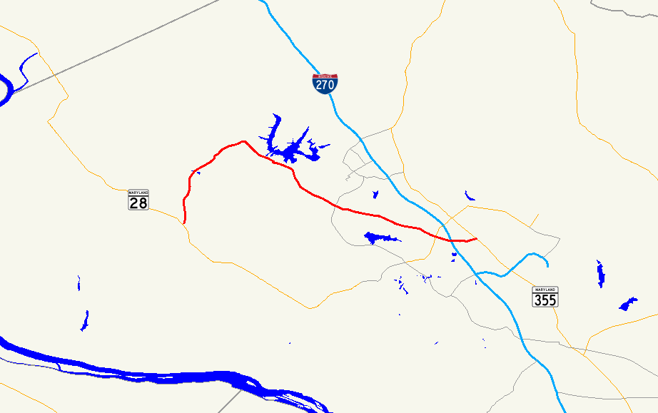 Map of Maryland Route 117